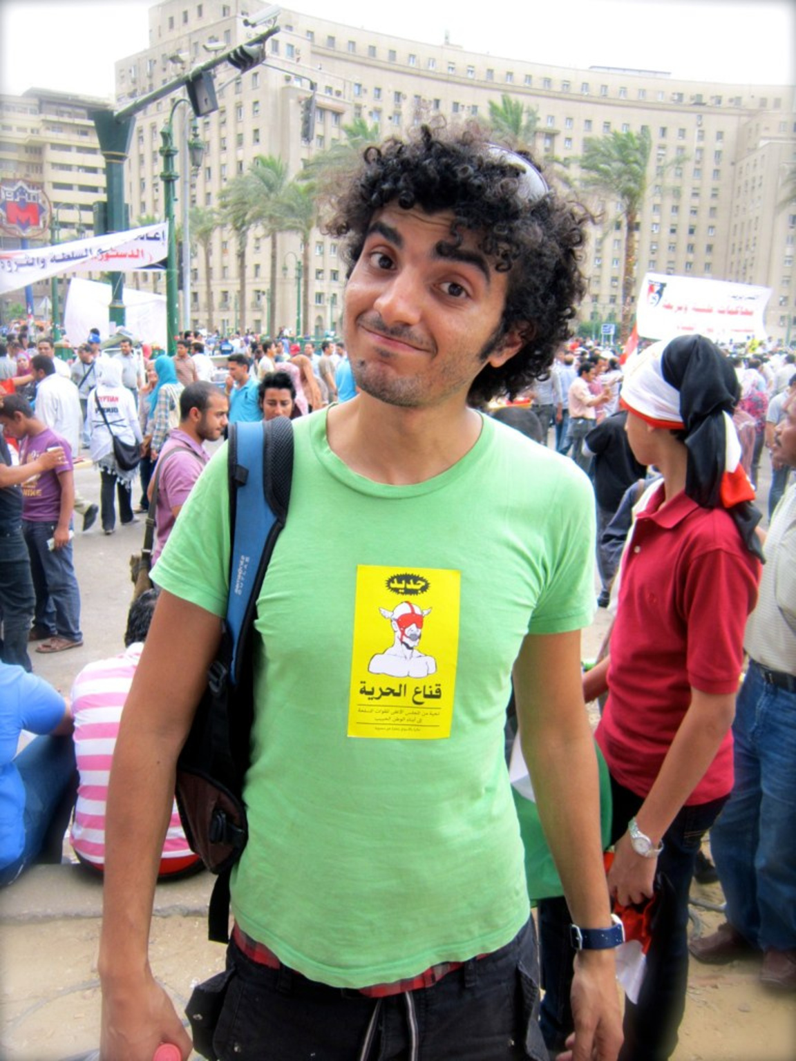 Ganzeer, the graffiti artist who designed the sticker on the t-shirt and got arrested for posting it in Tahrir a day earlier then released by military police